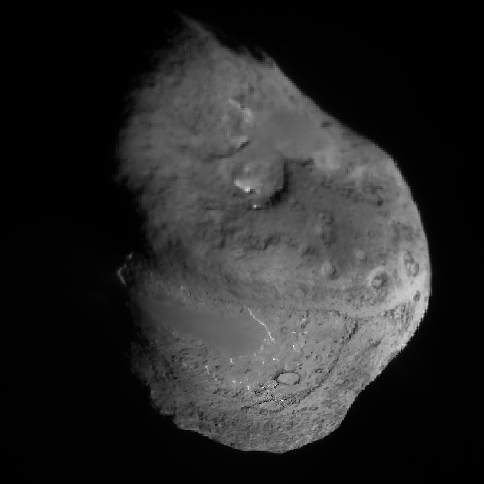 This image shows comet Tempel 1 before Deep Impact's probe smashed into its surface. It is a composite of images taken by the probe's impactor targeting sensor. The Sun is to the right of the image and reveals terrain varying in brightness by a factor of two. Shadows and bright areas indicate surface topography. Smooth regions with no features (lower left and upper right) are probably younger than rougher areas with circular features, which are probably impact craters. The probe crashed between the two dark-rimmed craters near the center and bottom of the comet. The comet nucleus is estimated to be about 5 kilometers (3.1 miles) across and 7 (4.3 miles) kilometers tall. This composite image was built up from scaling all images to 5 meters/pixel, and aligning images to fixed points. Each image at closer range, replaced equivalent locations observed at a greater distance. The impact site has the highest resolution because images were acquired until about 4 sec from impact or a few meters from the surface. In the annotated version (see "Other versions" below), arrows a and b point to large, smooth regions. The impact site is indicated by the third large arrow. Small arrows highlight a scarp that is bright due to illumination angle, which shows the smooth area to be elevated above the extremely rough terrain. The scale bar is 1 km and the two arrows above the nucleus point to the sun and the rotational axis of the nucleus. Celestial north is near the rotational pole. The original NASA image has been modified by cropping, and by sharpening of the lower 640 pixels.